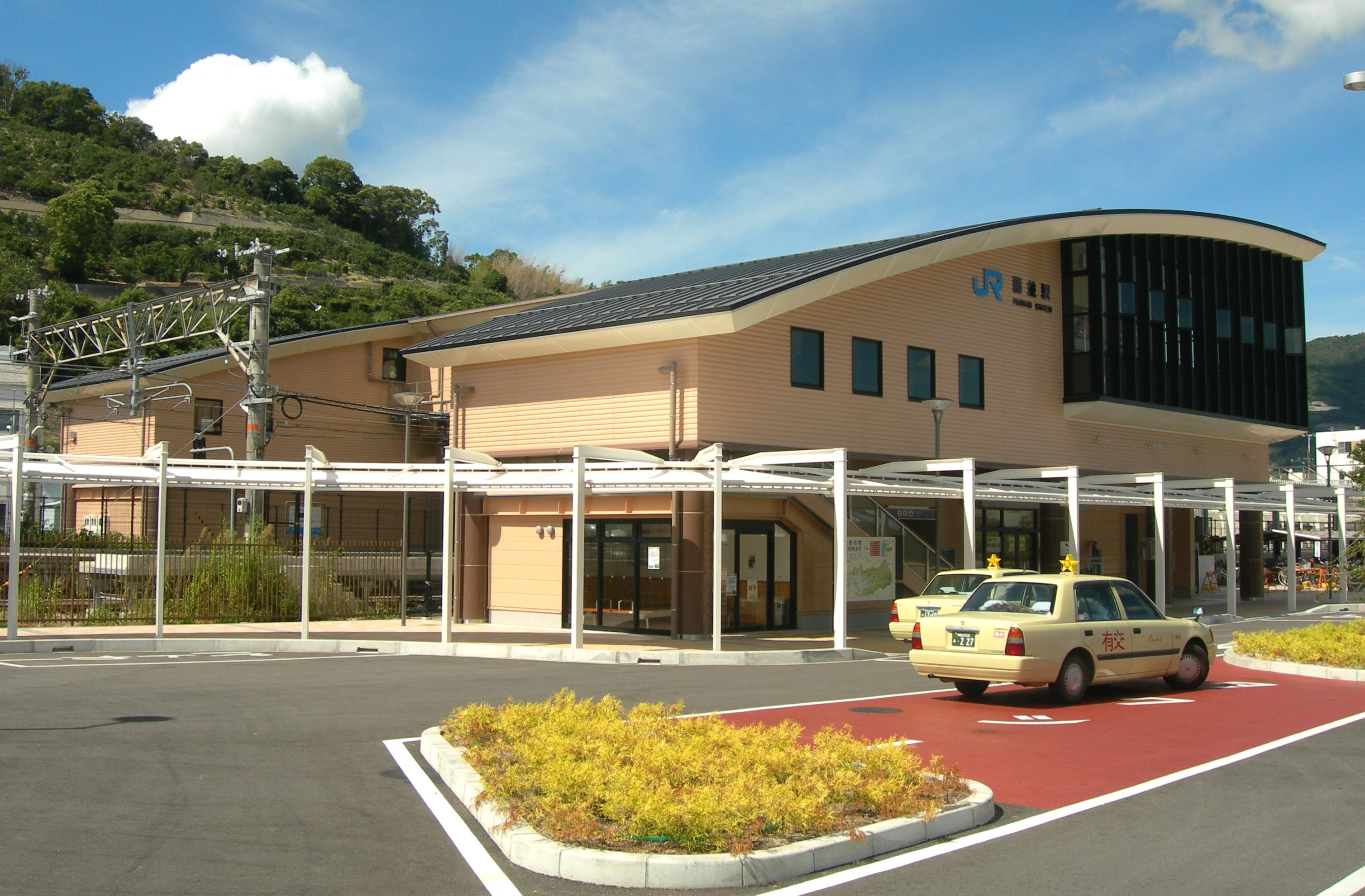 Fujinami Station